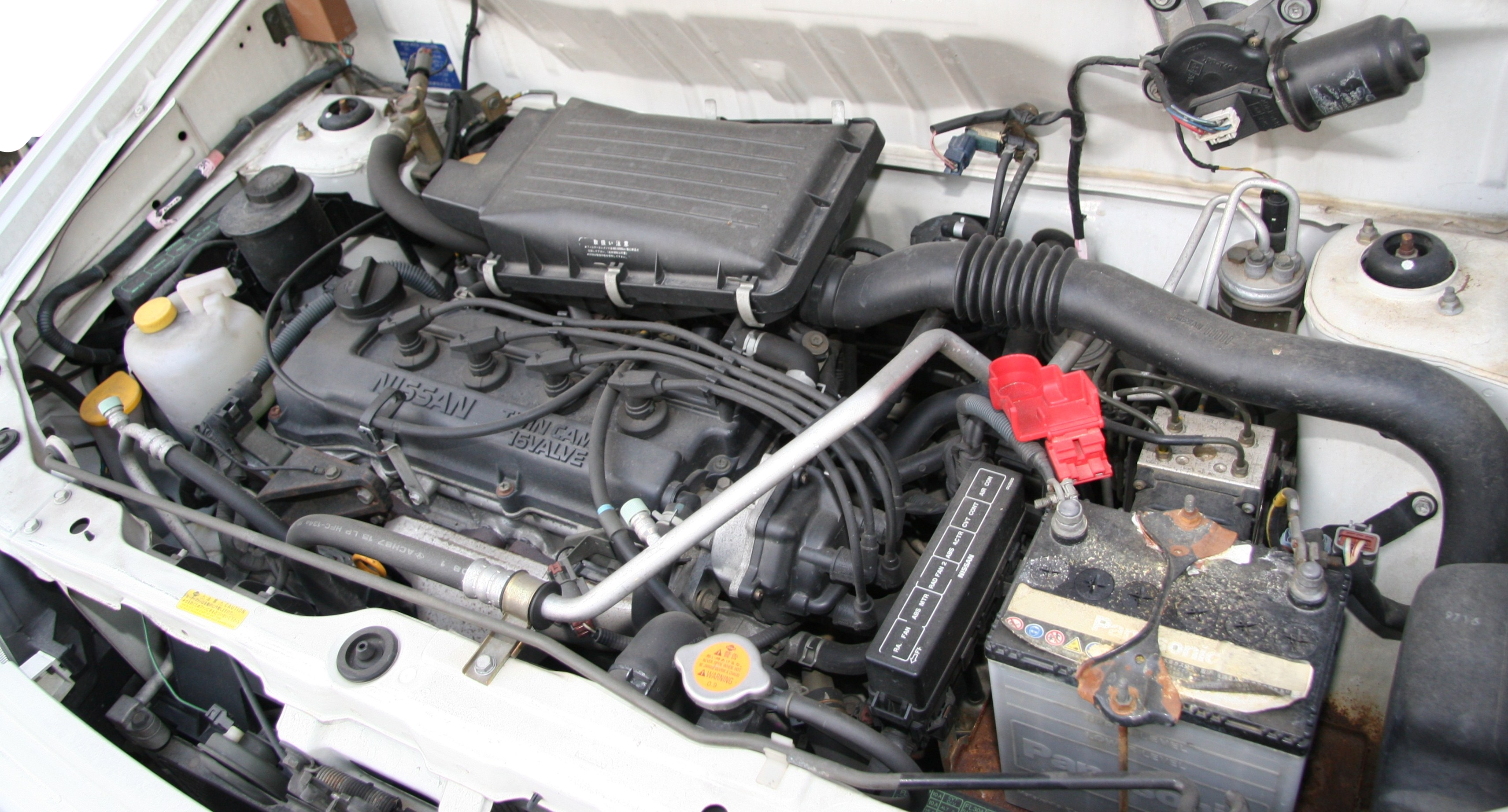 Nissan Cube